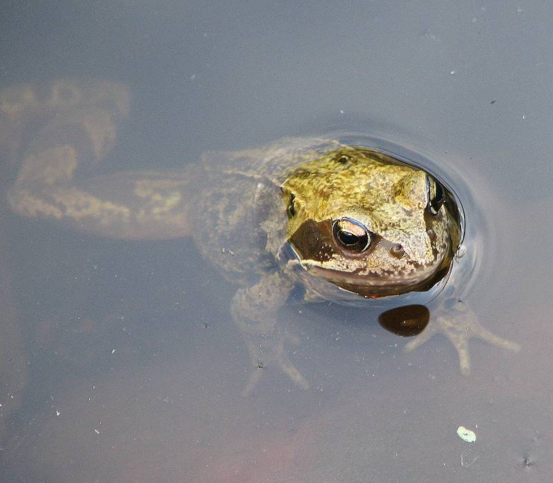 Description: Female Common Frog (Rana temporaria) in a pond, Botanical Garden Bochum, Germany Source: self-made Date: created 15. Jul. 2006 Author: Frank Vincentz Permission: GFDL (self made)